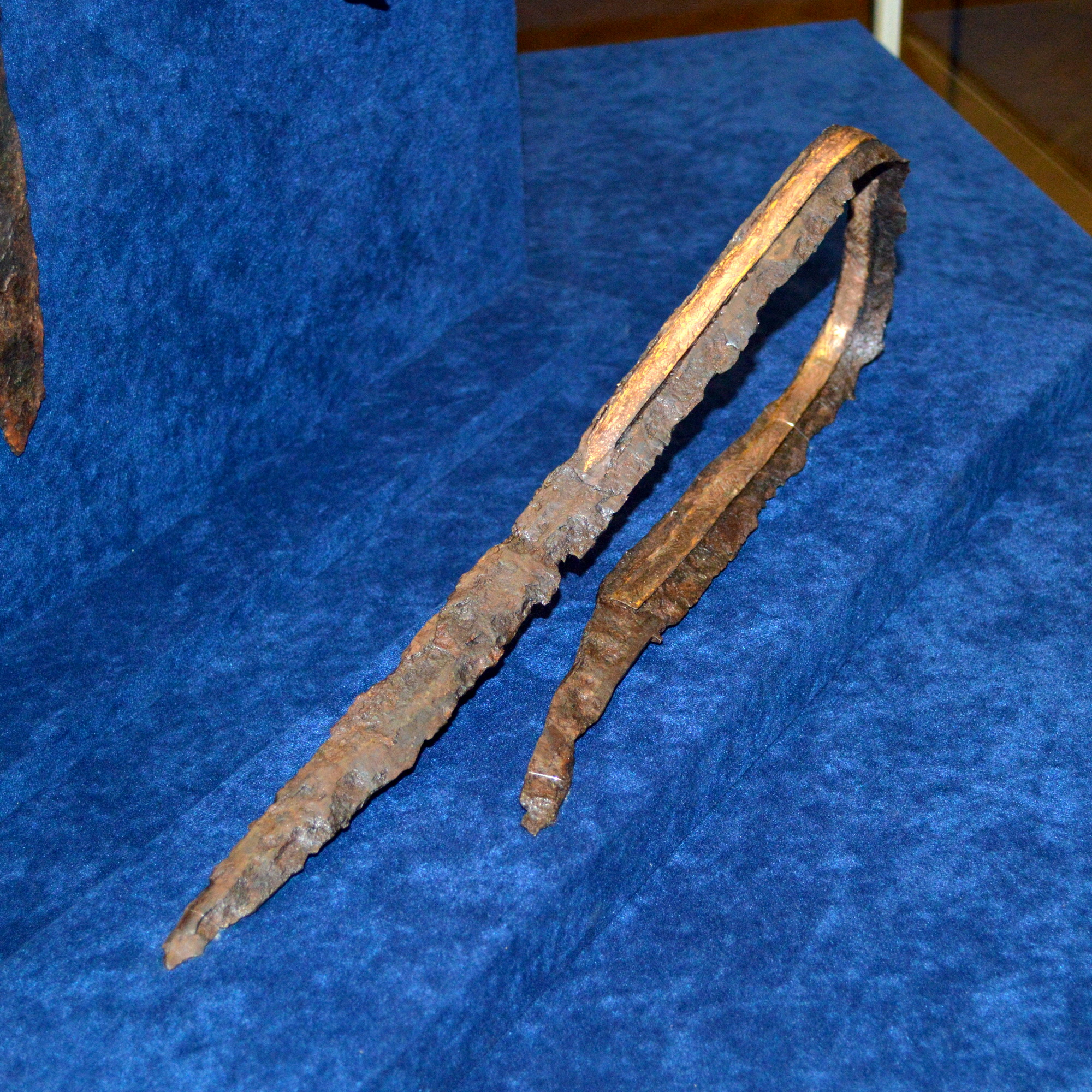 Sabre, 10 c., was found near of Desiatynna church, Kiev. Sabre was deformed for interment.